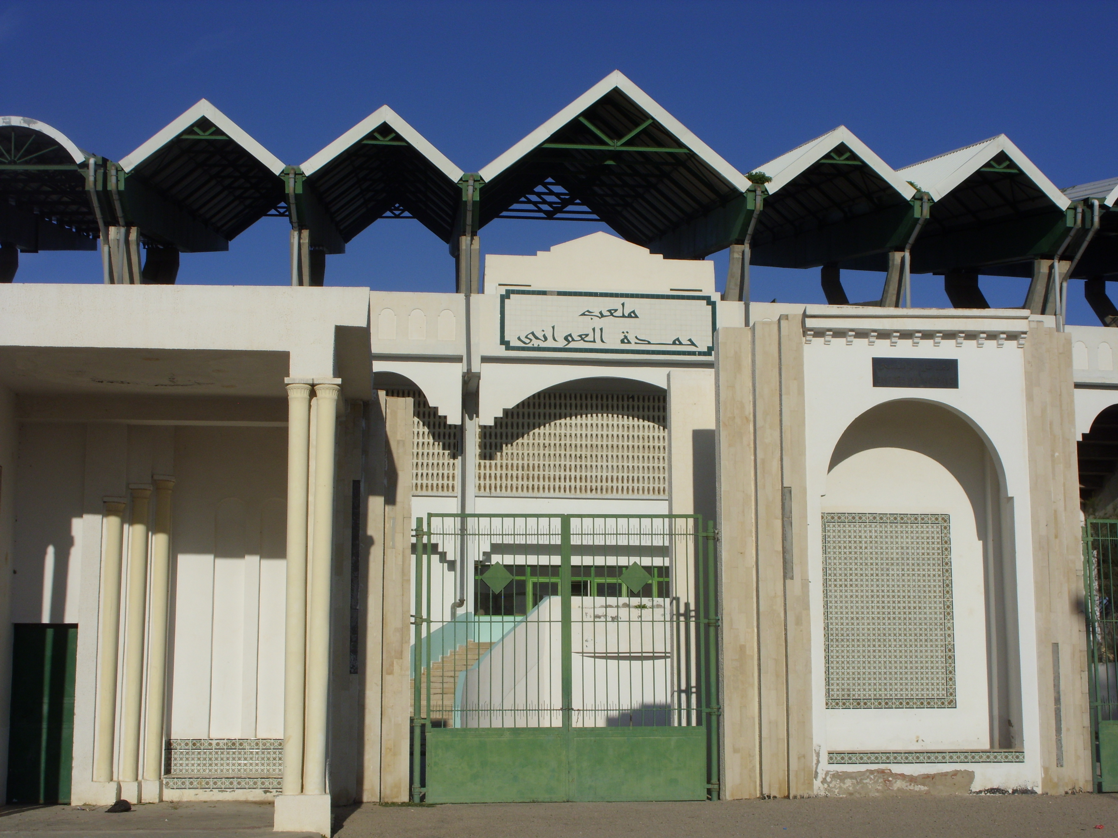 Hamda Laouani stadium, Kairouan